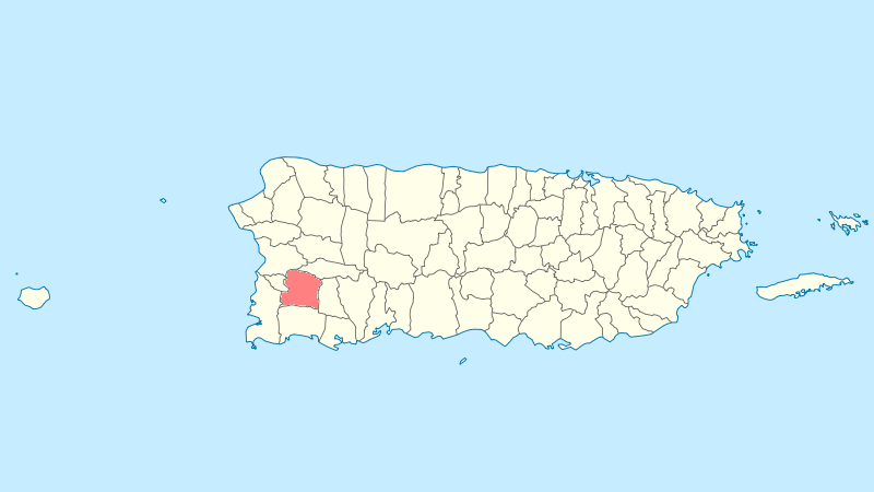 Municipal locator of Puerto Rico